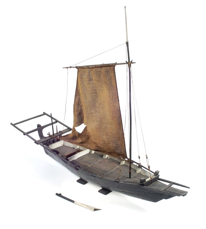 Model of a proa